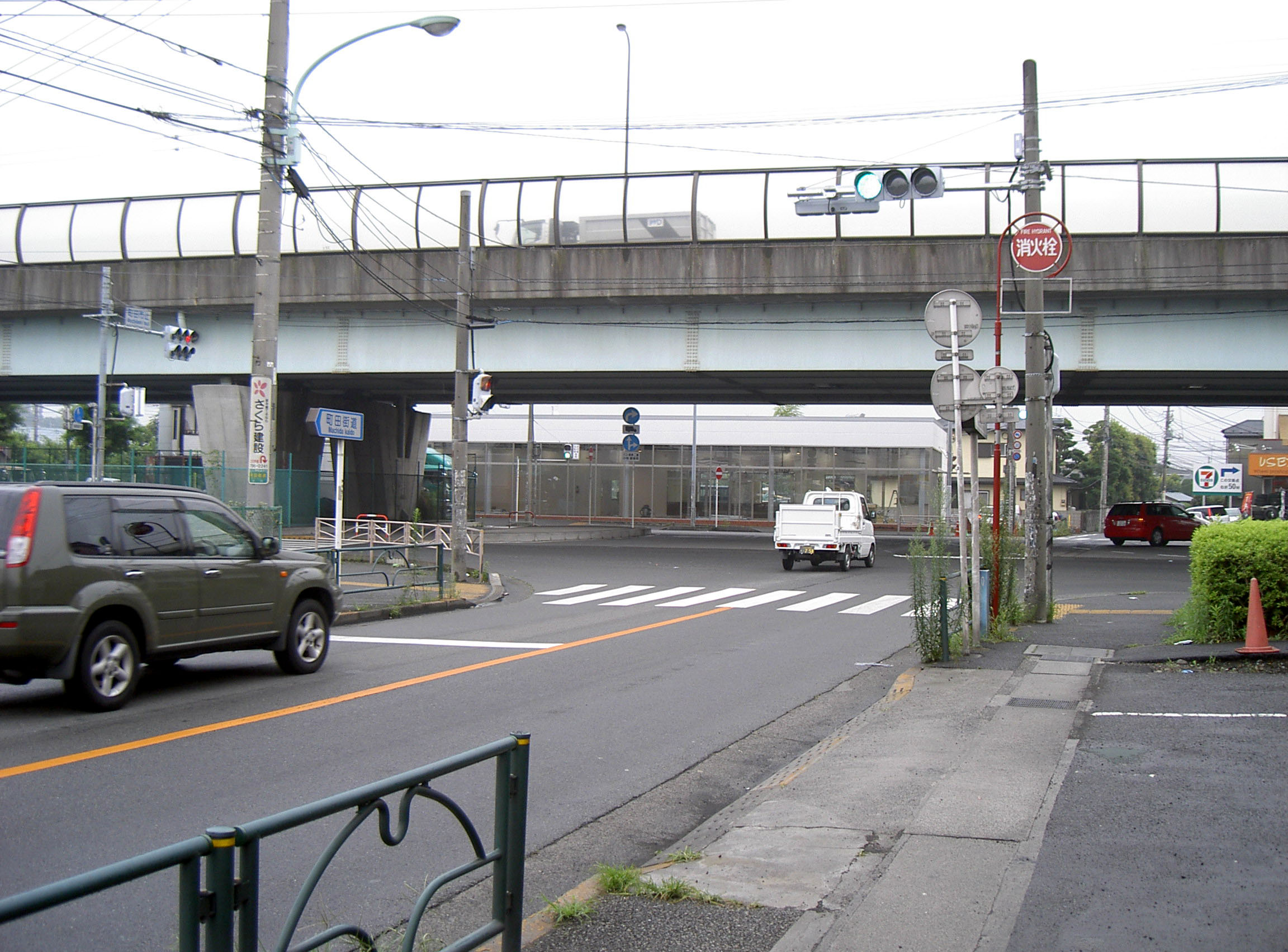 The junction of Japanese National Highway Route 246 and Tokyo Prefectural Road Route 141 ja: 国道246号と東京都道141号辻原町田線の交差点